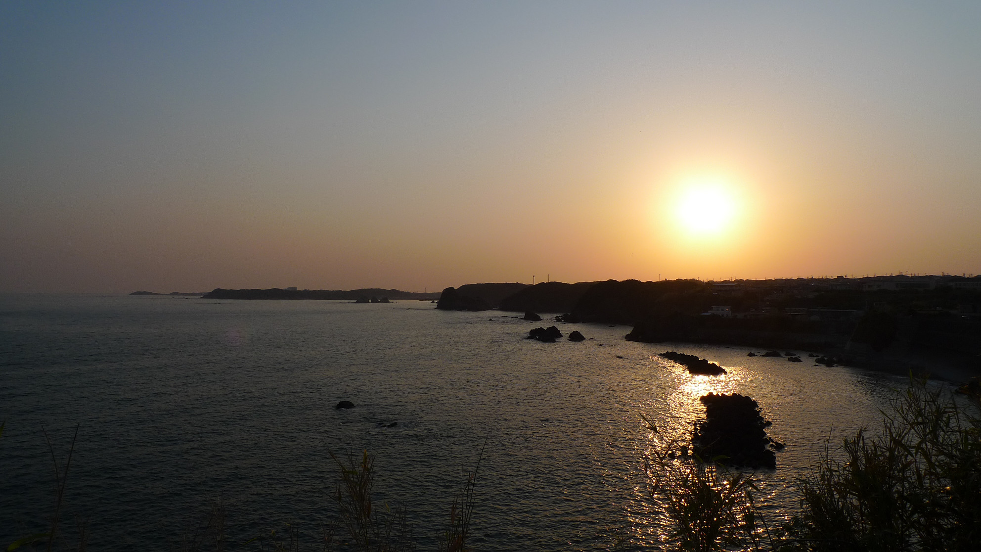 View from Daiosaki(Daiozaki) Lighthouse, Shima city, Mie pref, Japan